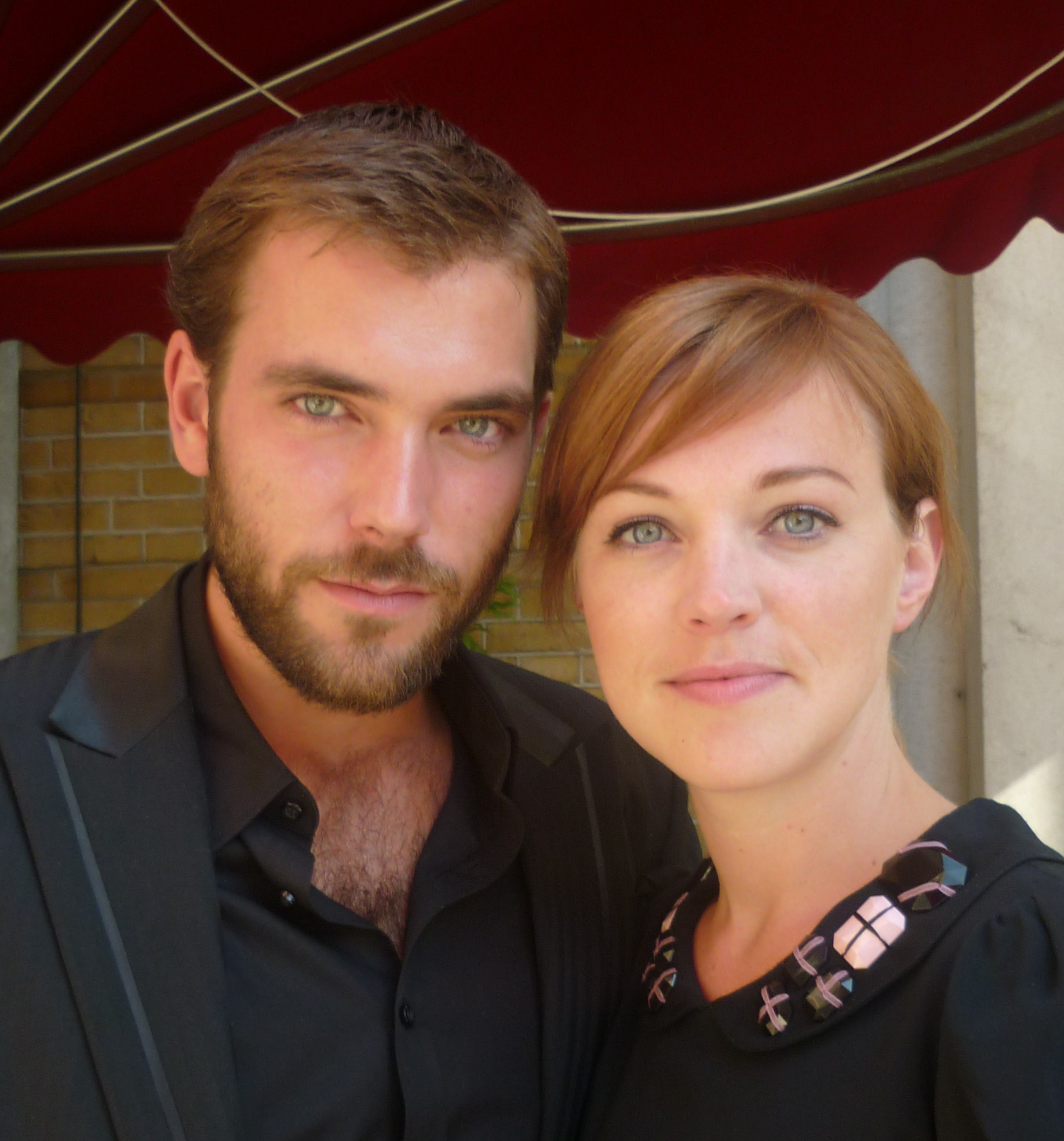 Matteo van der Grijn et Loes Haverkort.